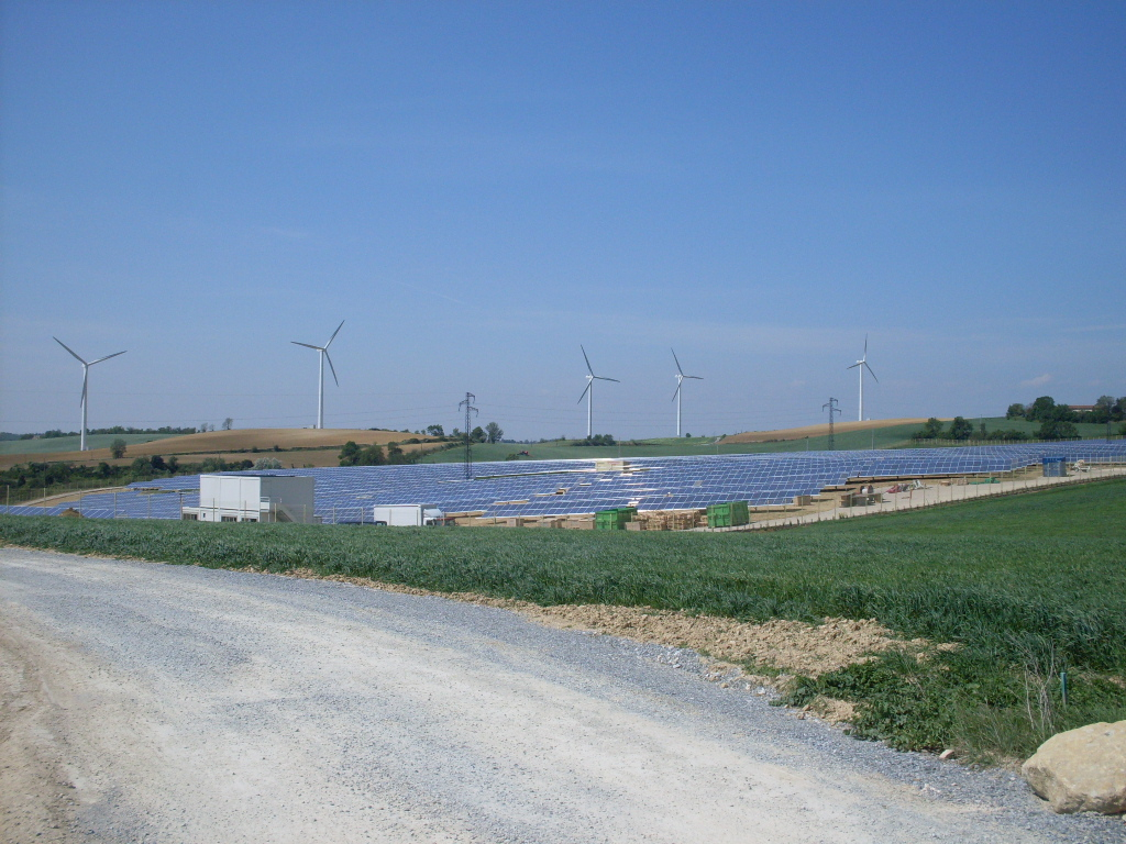 Solar panels near Avignonet-Lauragais, FRANCE.